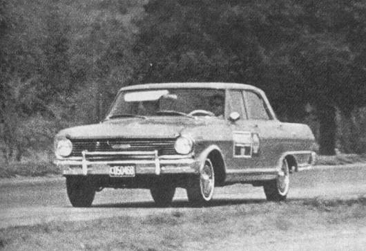 An Argentine Chevrolet 400 running.